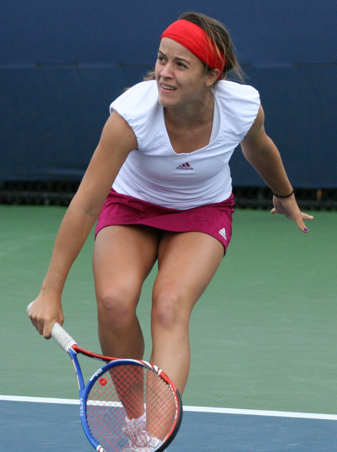 U.S. Open Juniors Sept. 9, 2010